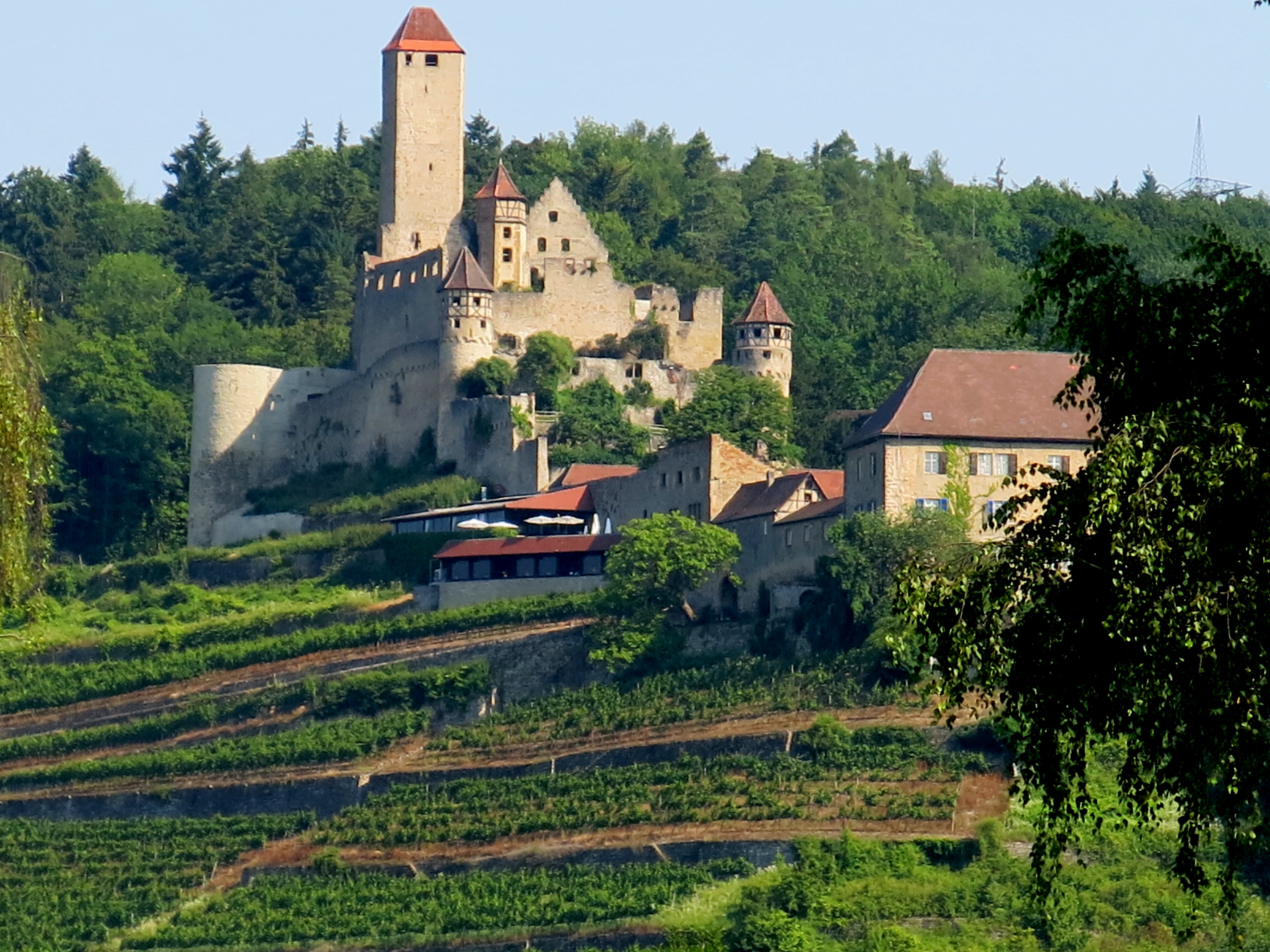 Hornberg castle in Neckarzimmern